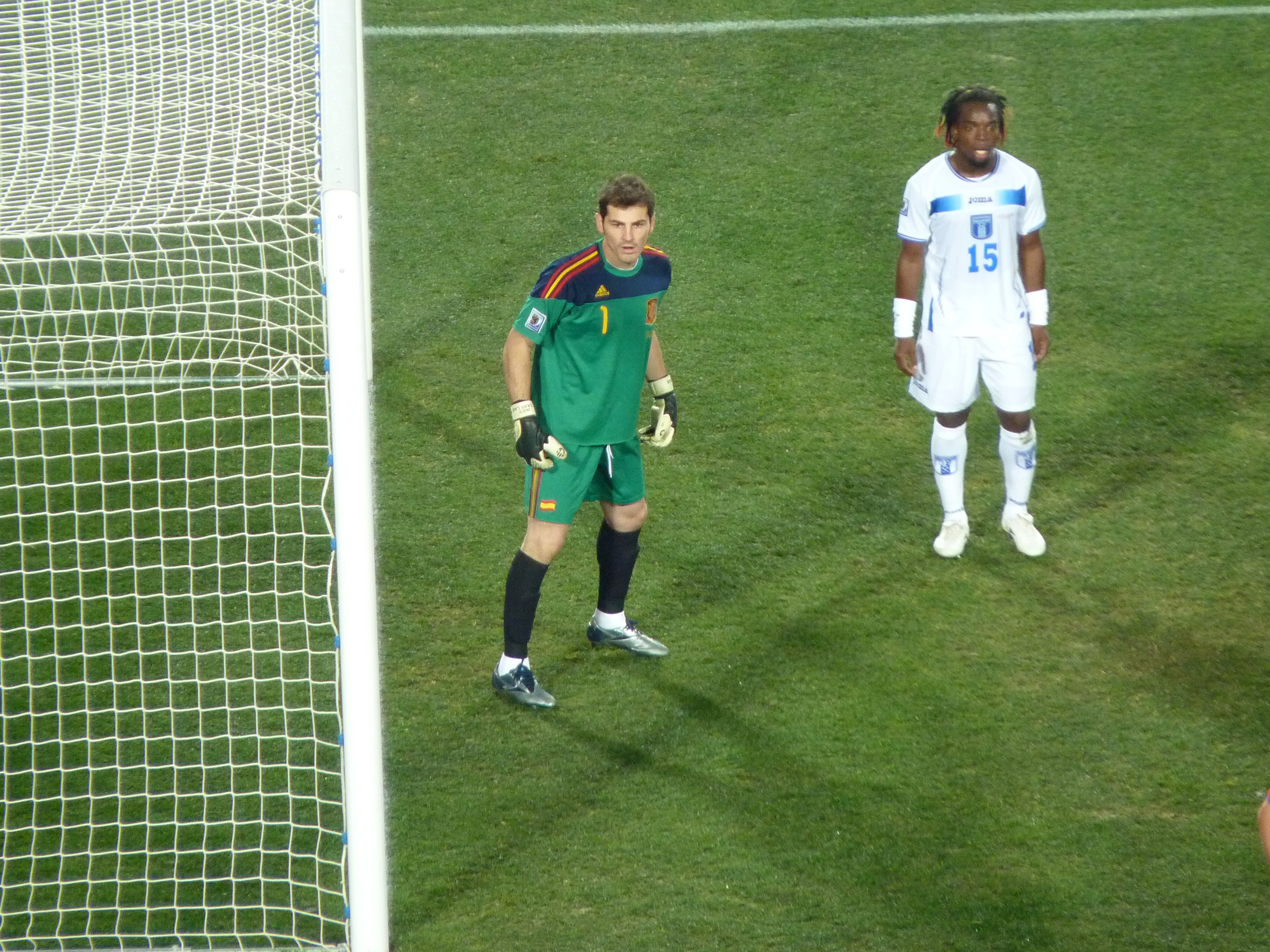 Teams during the game between Spain and Honduras at FIFA World Cup 2010, 21 June 2010, Ellis Park Stadium, Johannesburg